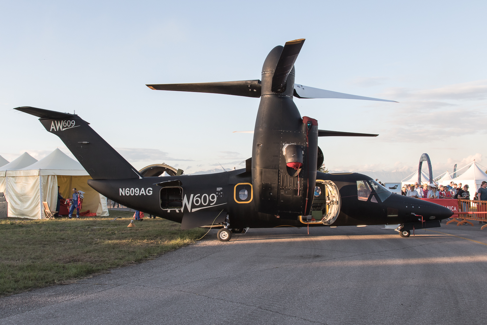 AgustaWestland AW-609 N609AG (cn 60002) static display